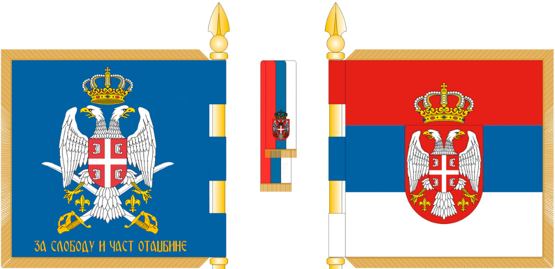 Air Force brigade flag. Српски (ћирилица): Bаздухопловна бригада застава. Srpski (latinica): Vazduhoplovna brigada zastava.